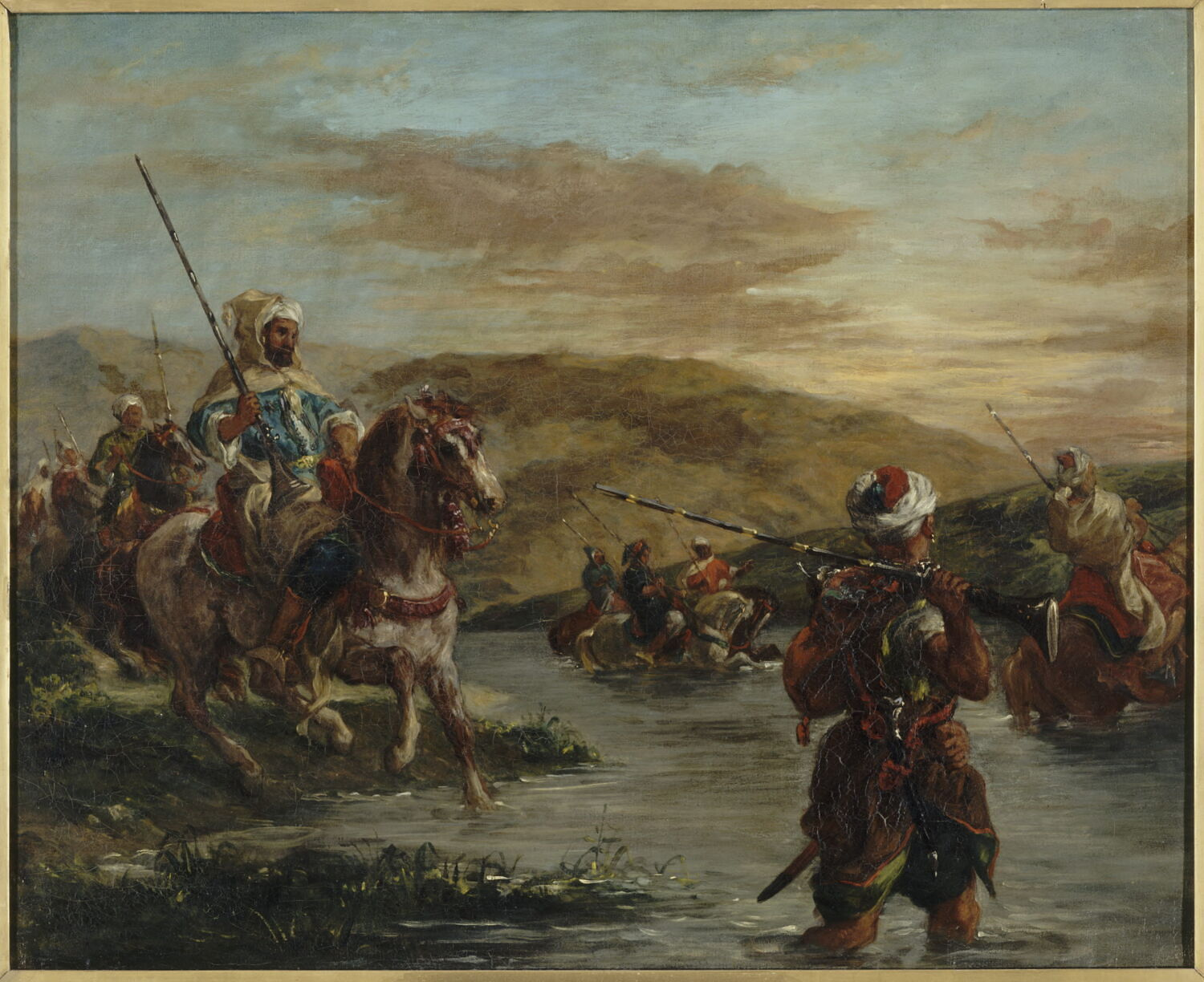 Passage d'un gué au Maroc